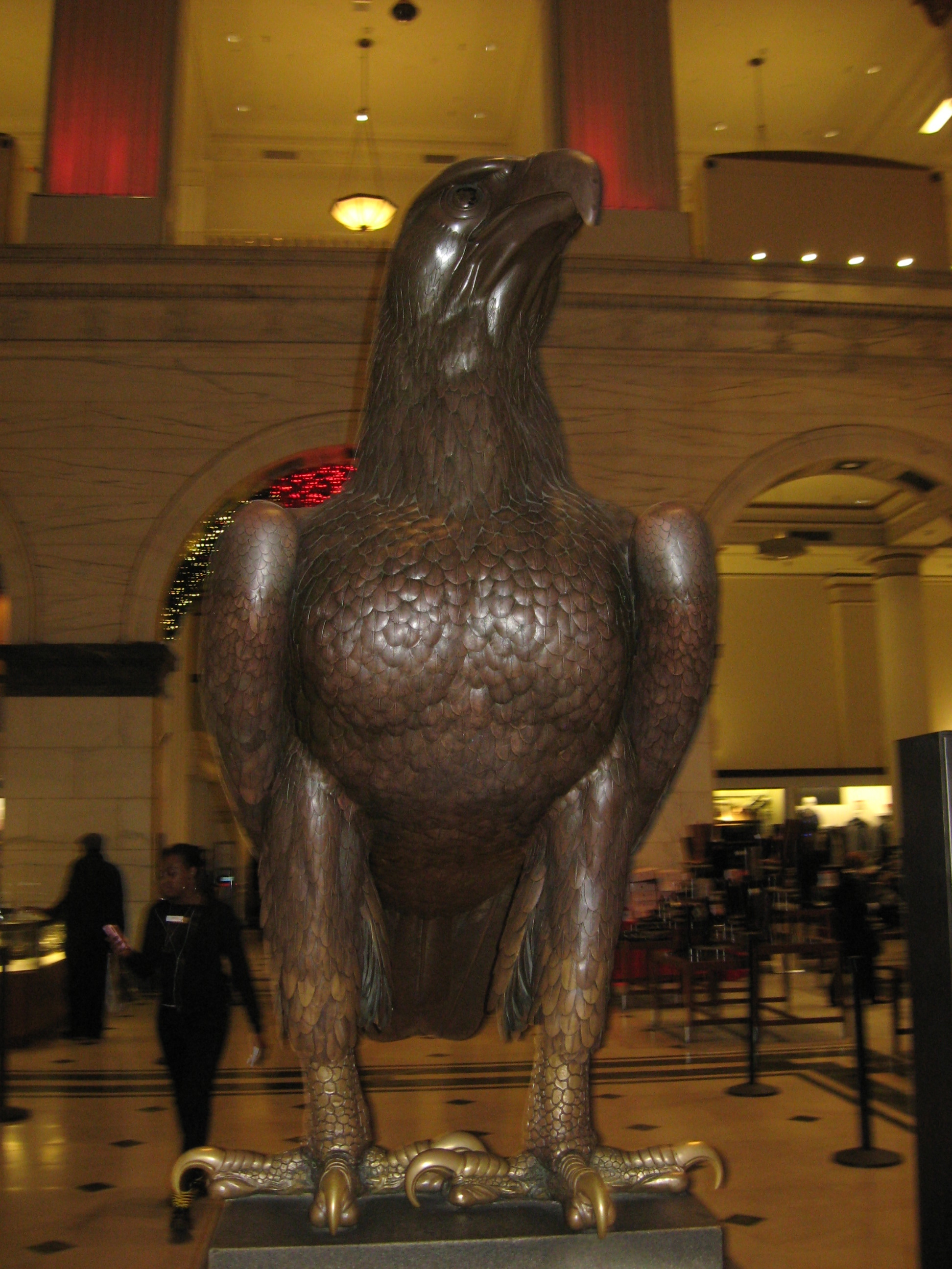 Wanamaker Building, Philadelphia, PA, USA